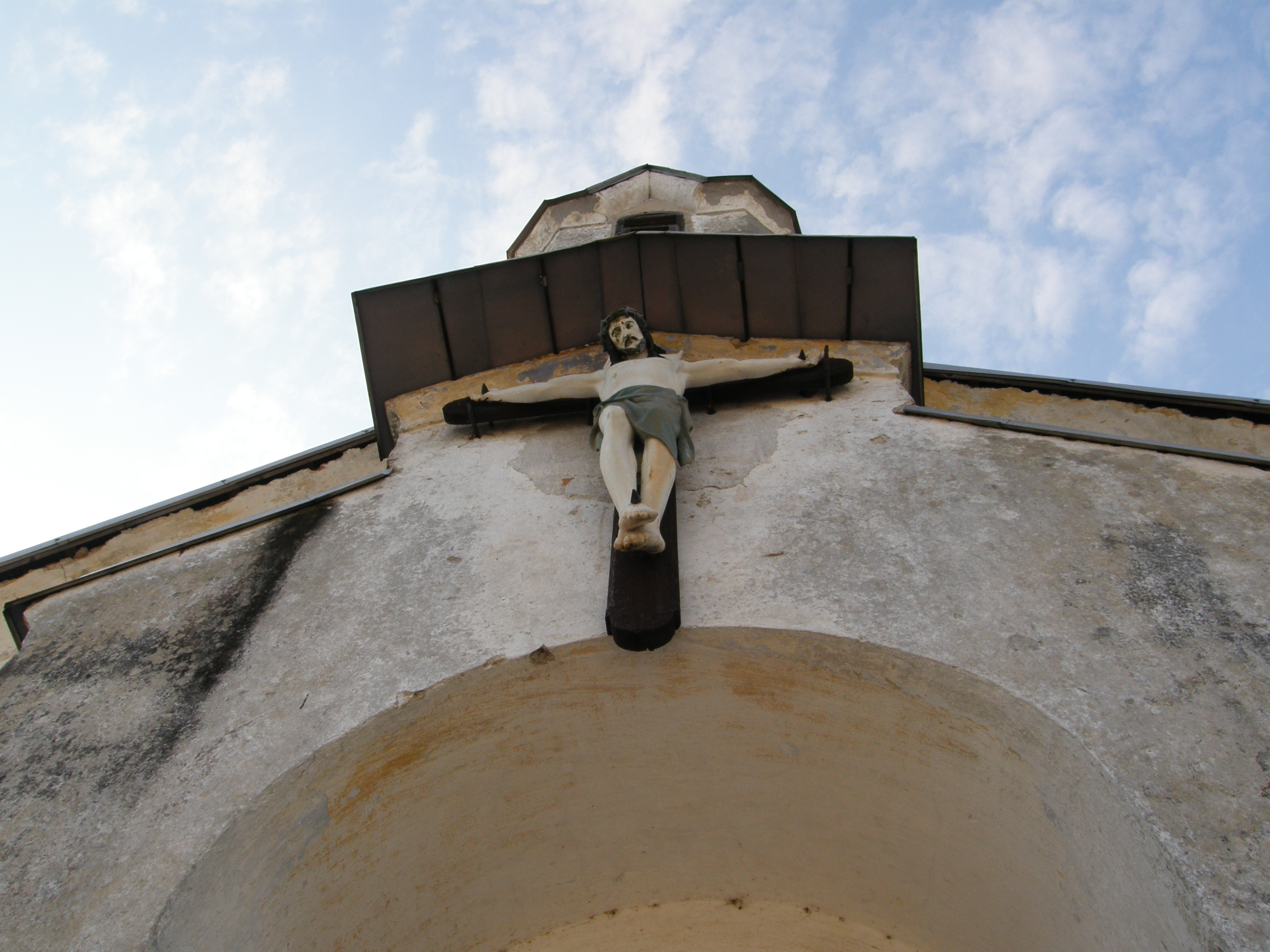 Crucifix in Mrina Peč, Slovenia